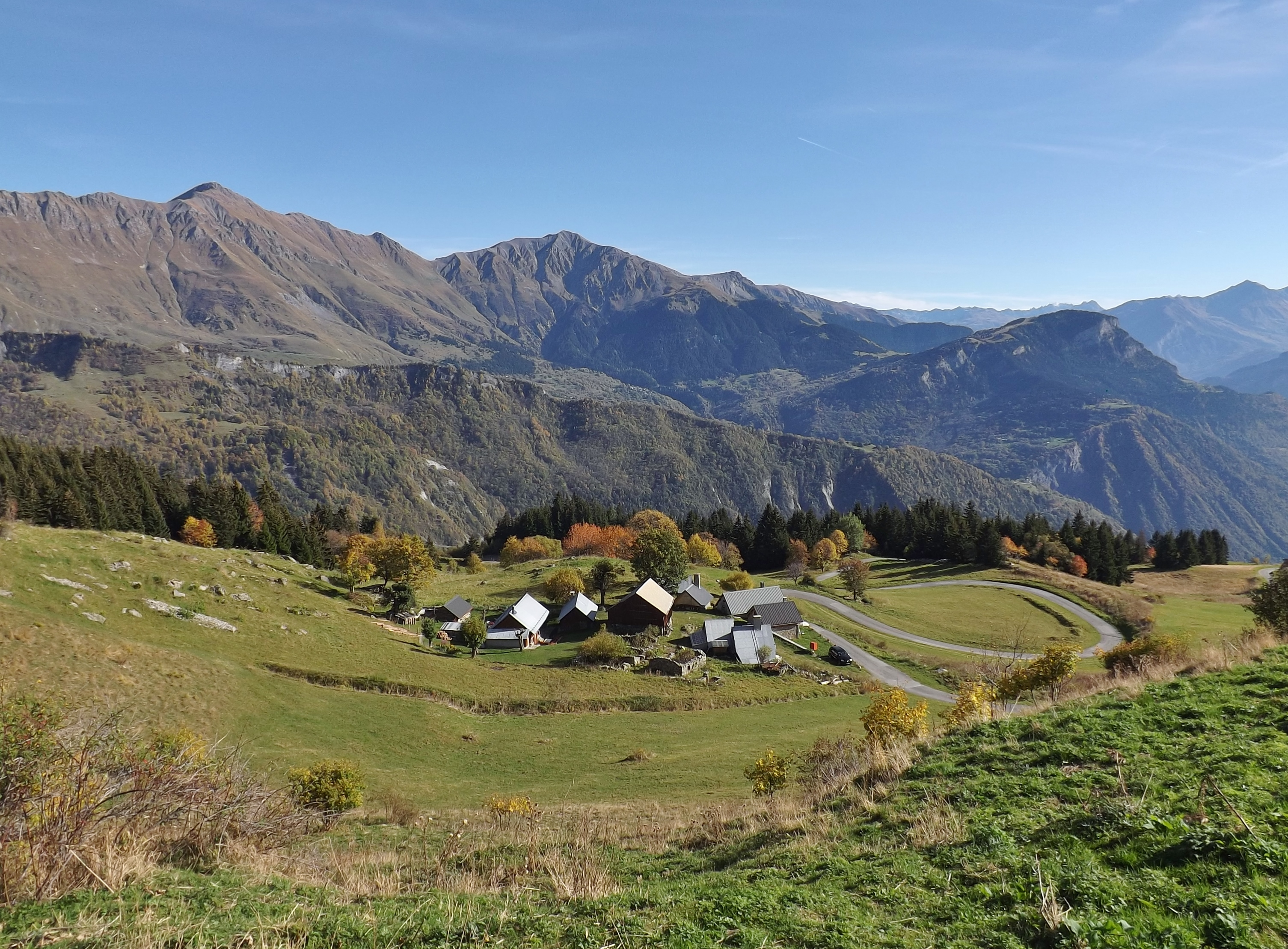 Panoramic sight, in automn, on the Sappey des Cohendets hamlet, on the French commune of Montgellafrey, in the Lauzière mountains of Savoie.